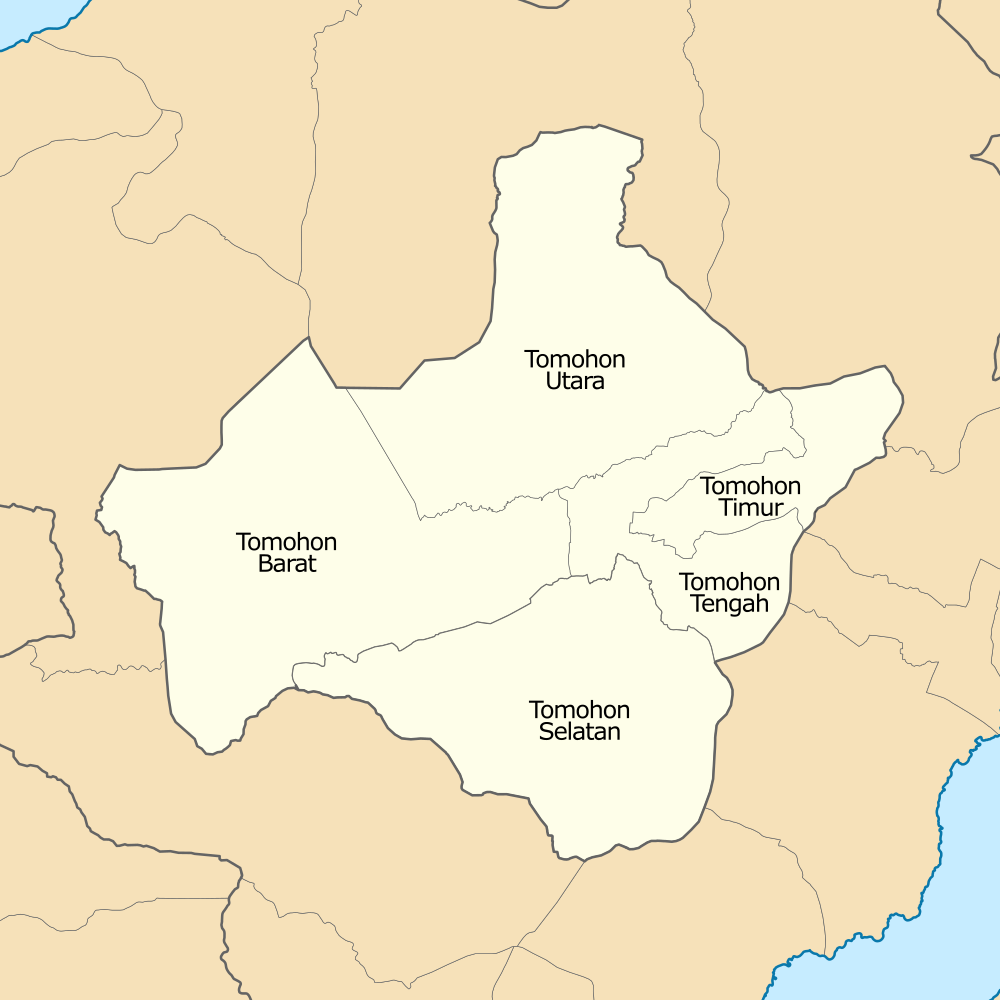 Map of sub-districts in Tomohon, North Sulawesi, Indonesia. Map data from tanahair.indonesia.go.id and kpu-sulutprov.go.id.